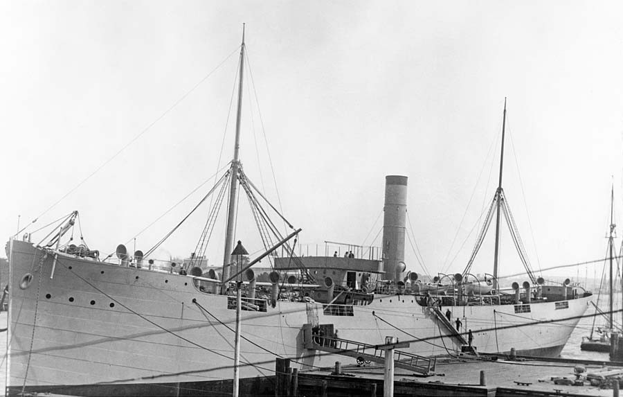 (1898) At the Norfolk Navy Yard, Portsmouth, Virginia, 23 April 1898, while completing outfitting for U.S. Navy service. Photograph from the Bureau of Ships Collection in the U.S. National Archives.